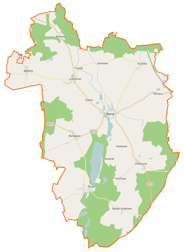 Map of Gmina Banie, Poland This map of Banie (gmina) was created from OpenStreetMap project data, collected by the community. This map may be incomplete, and may contain errors. Don't rely solely on it for navigation.